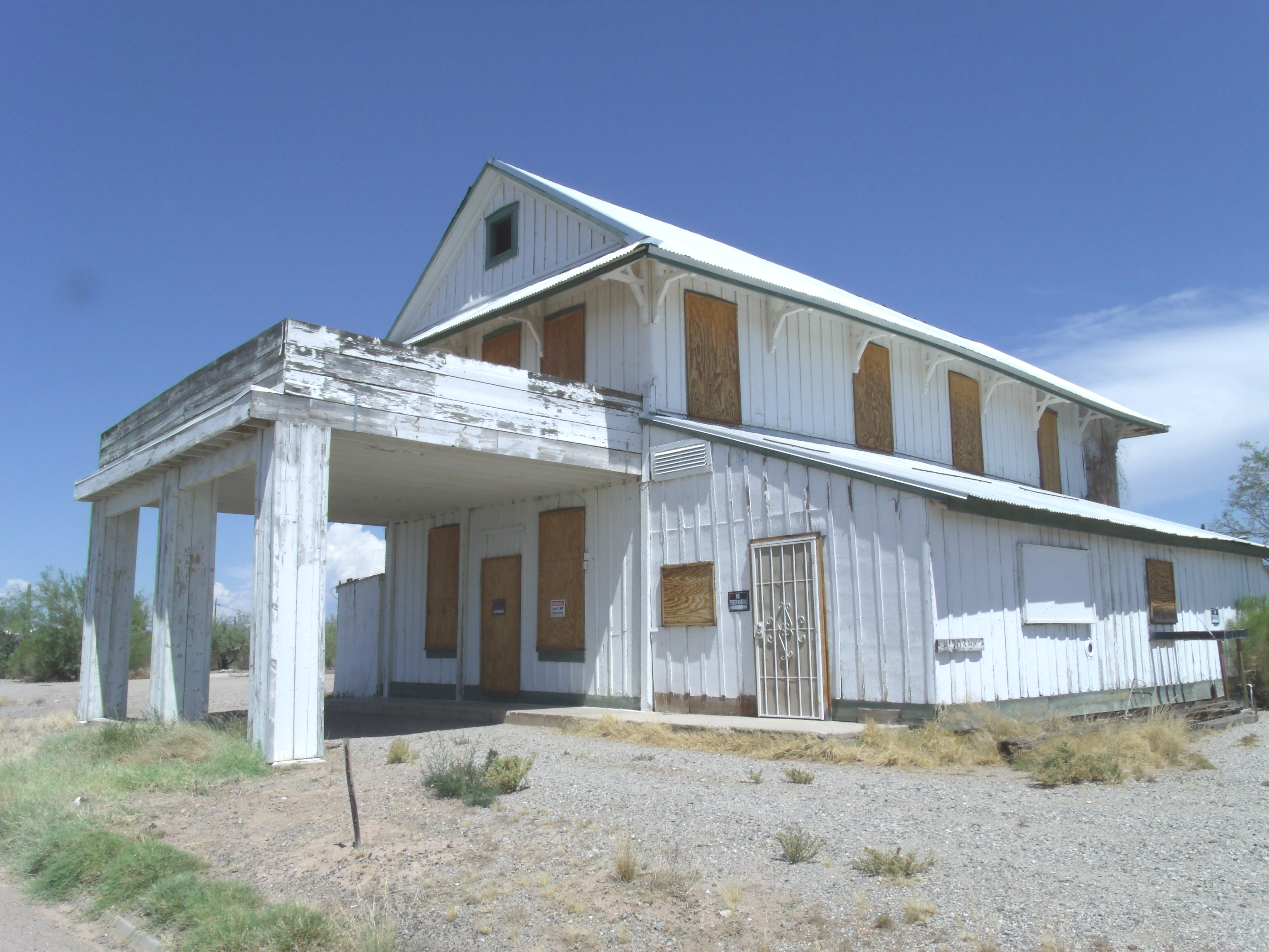 Different view of the Morristown Hotel /Store was built in 1899 and is located at U.S. Route 89 NW Castle Springs Road, Morristown, Arizona. The building was listed in the National Register of Historic Places on August 12, 1991, .